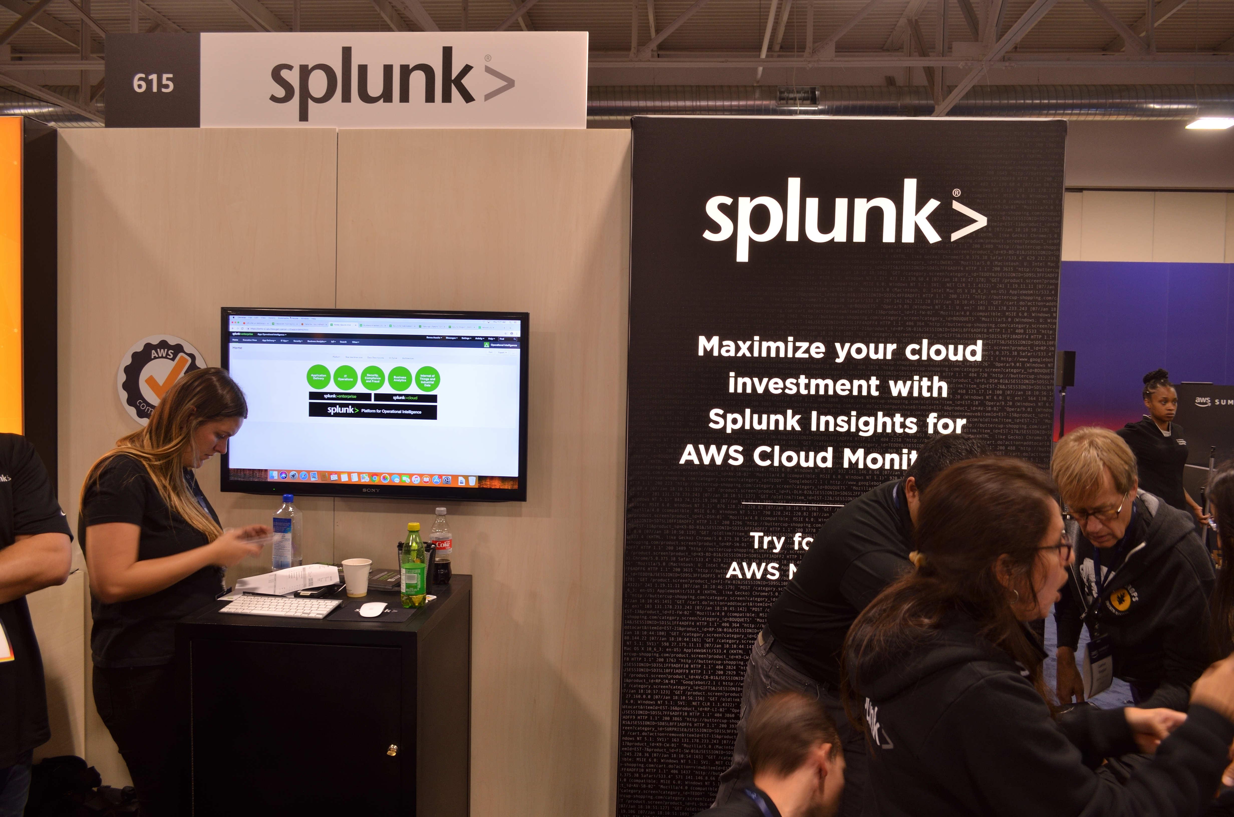 Splunk at AWS Toronto Summit 2018